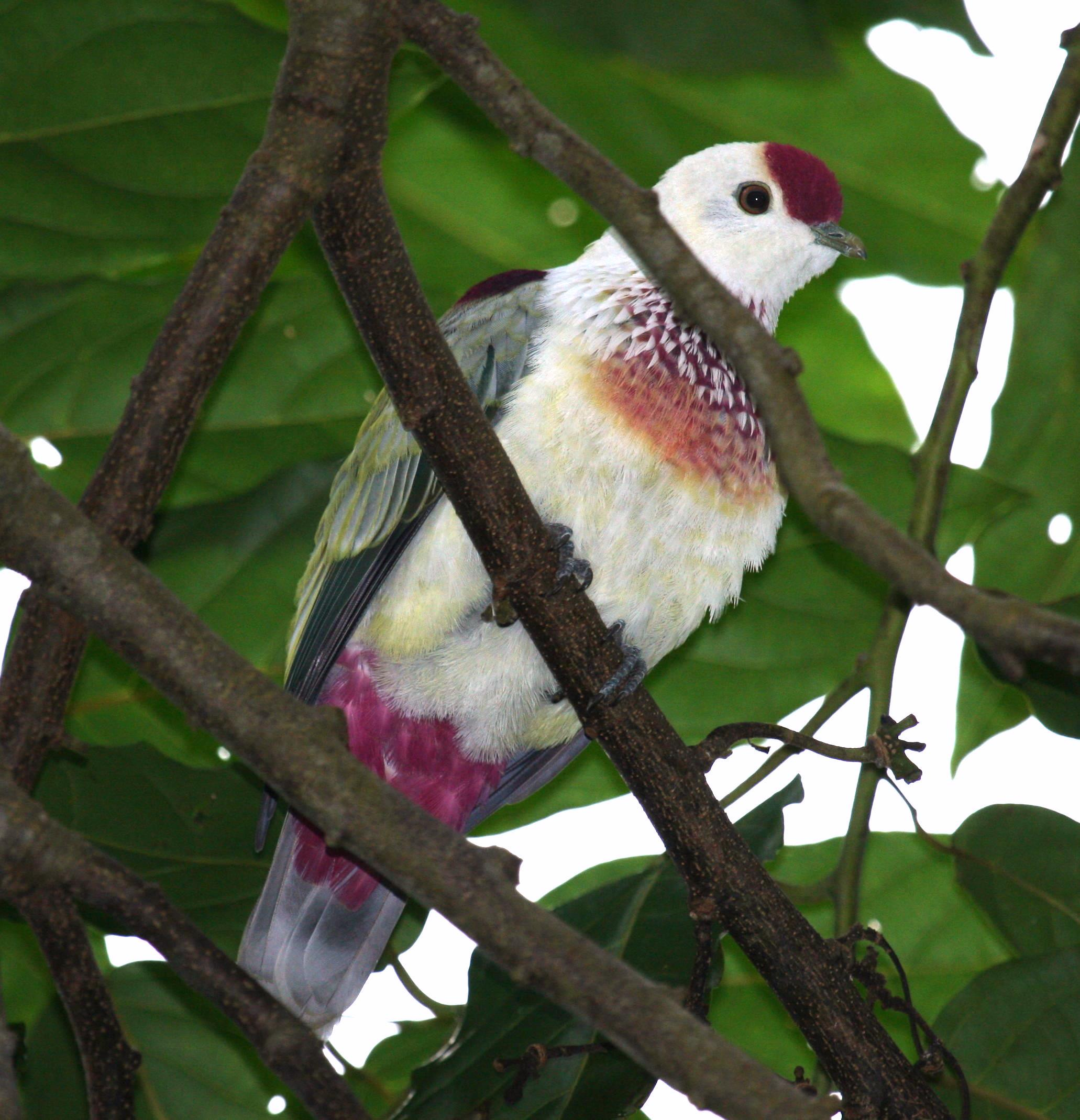 Many-coloured Fruit-dove (Ptilinopus perousii) Male, Bibi's Hideaway, Matei, Taveuni, Fiji Isles